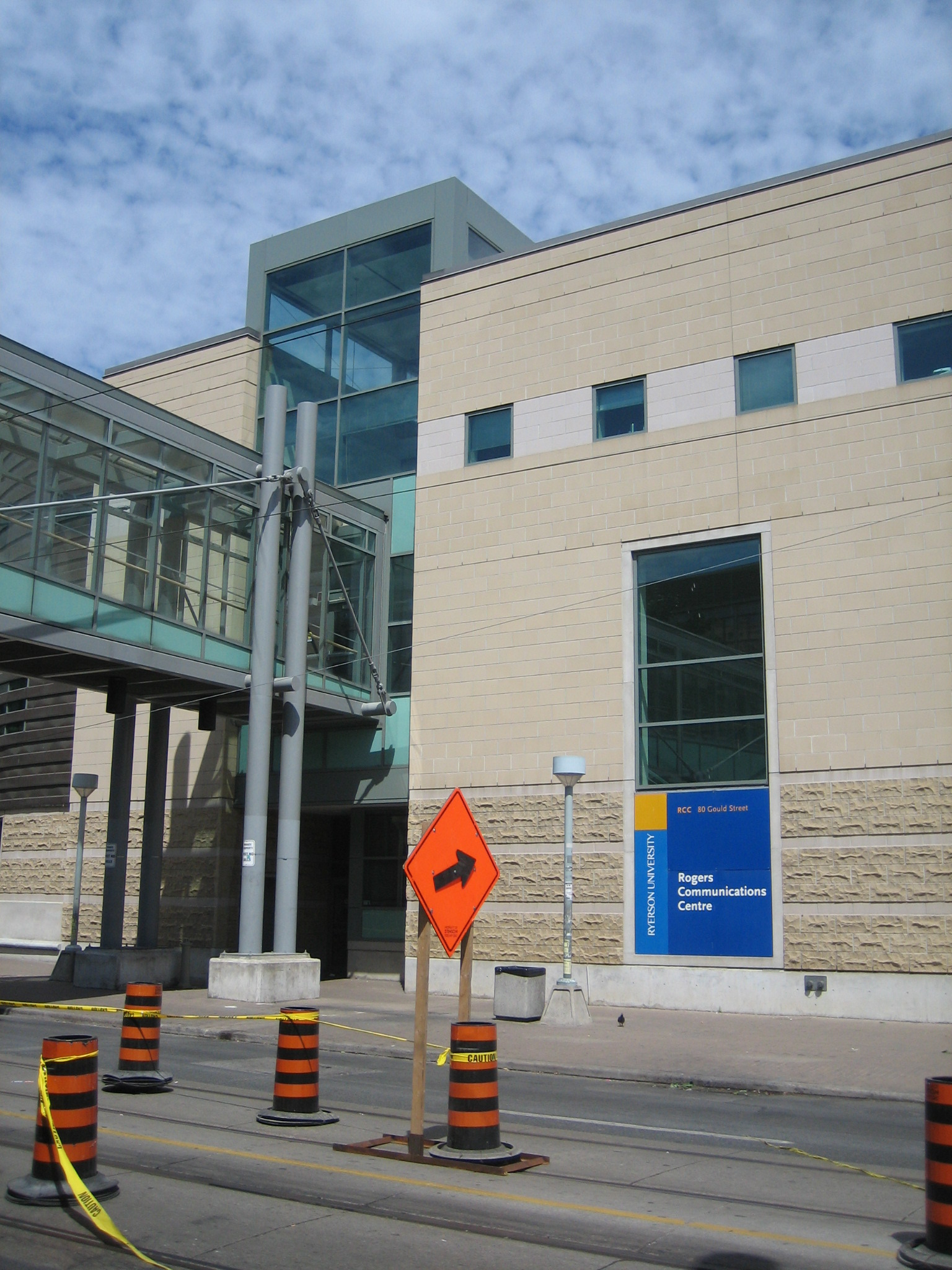 Ryerson Rogers Communications Centre